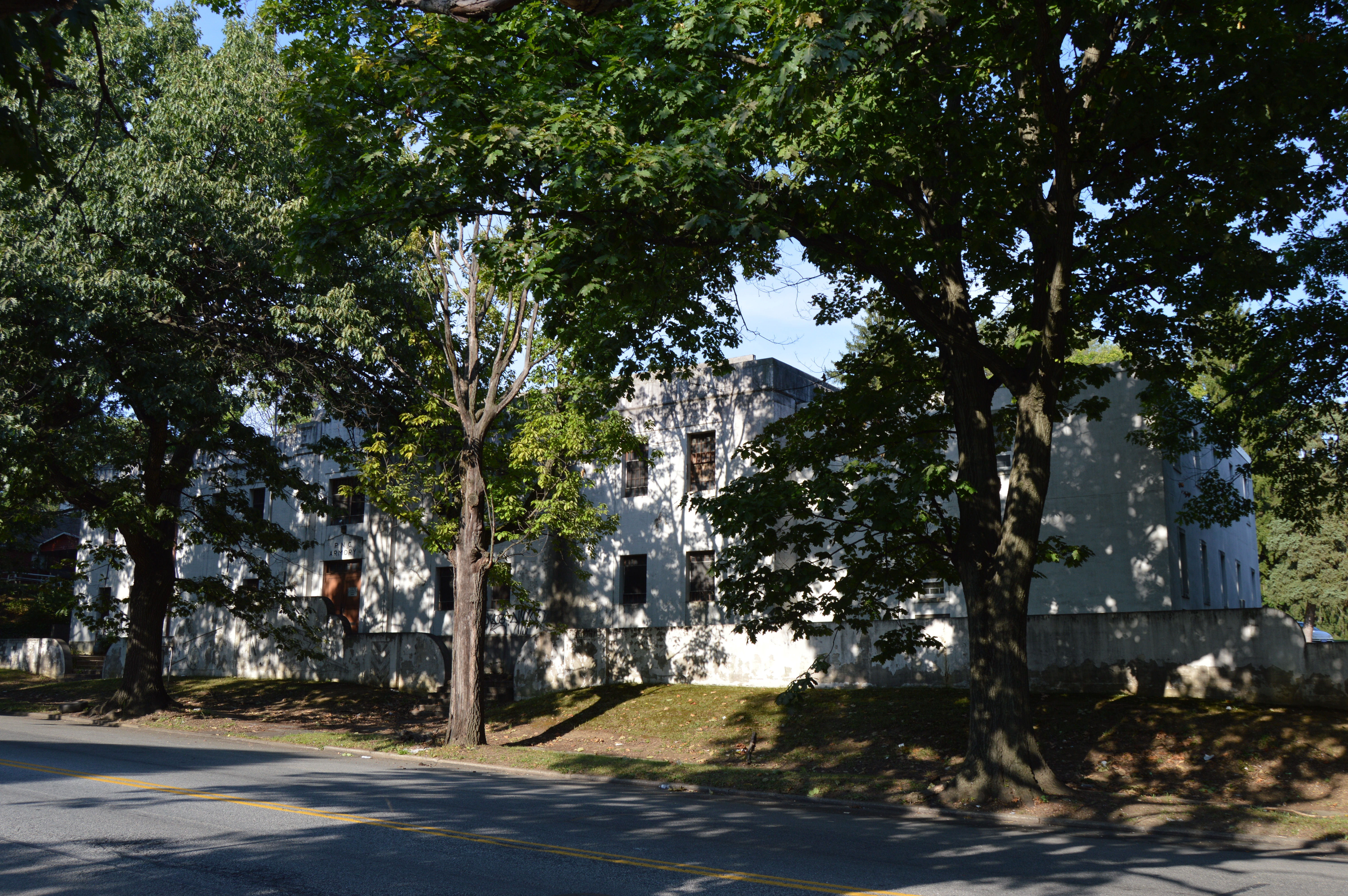 Front of the Harrisburg 19th Street Armory, located at 1313 S. Nineteenth Street in Harrisburg, Pennsylvania, United States. Built in 1938, it is listed on the National Register of Historic Places.